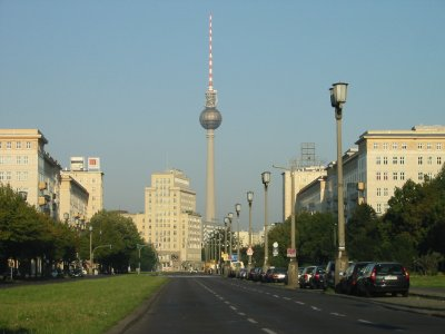 View of the Karl-Marx-Allee in direction to the Berlin tv tower